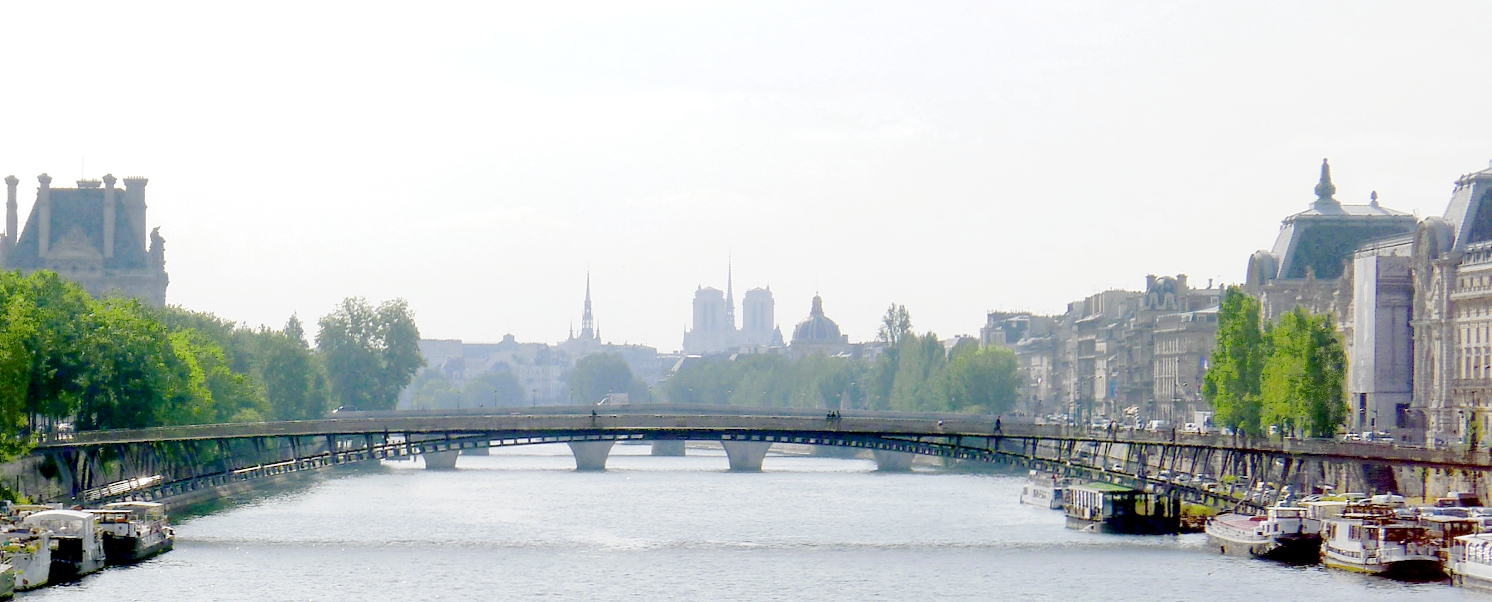 Passerelle Léopold-Sédar-Senghor (ex Solferino bridge) - Paris